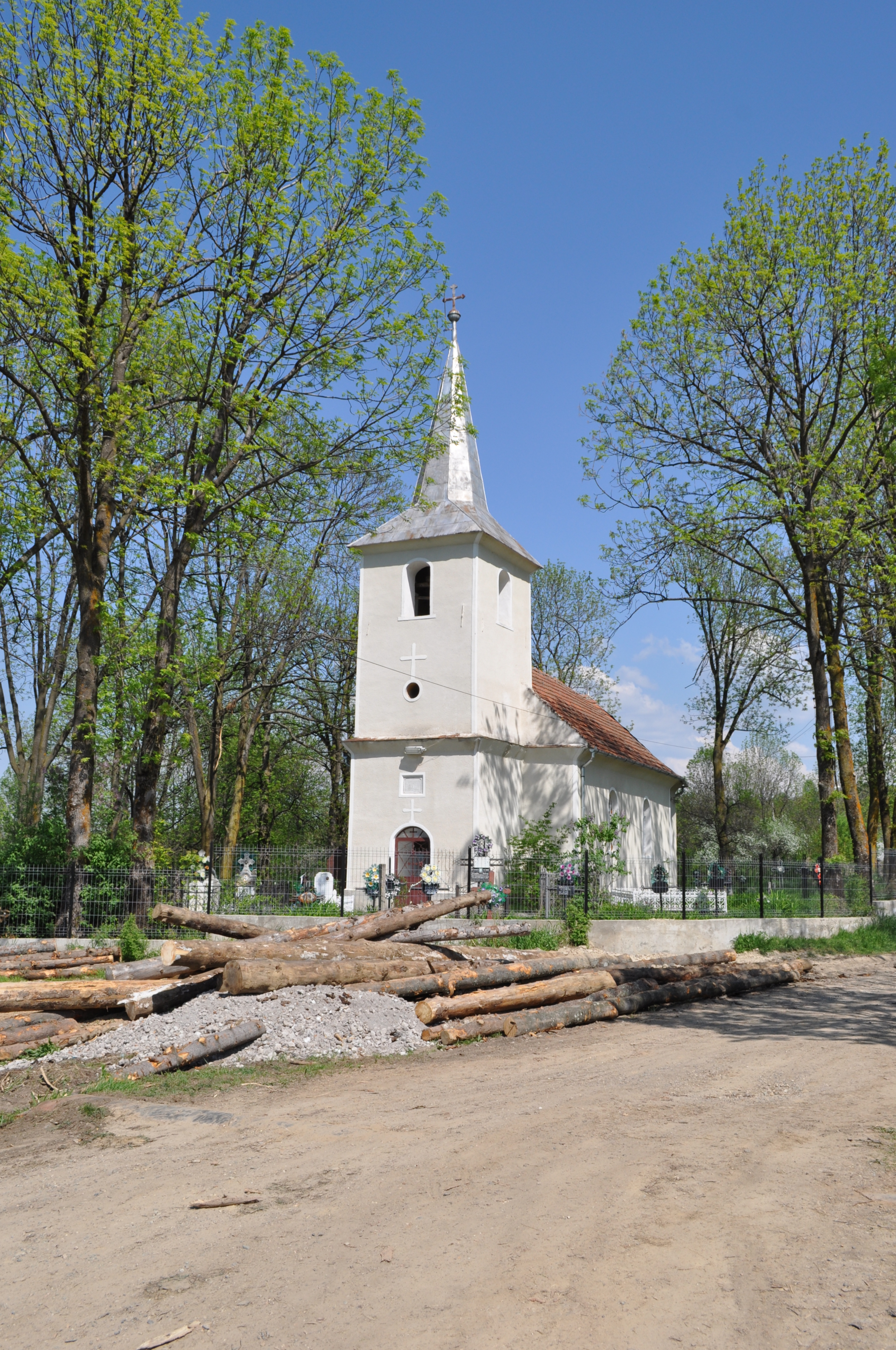 Mălăiești, Hunedoara county, Romania